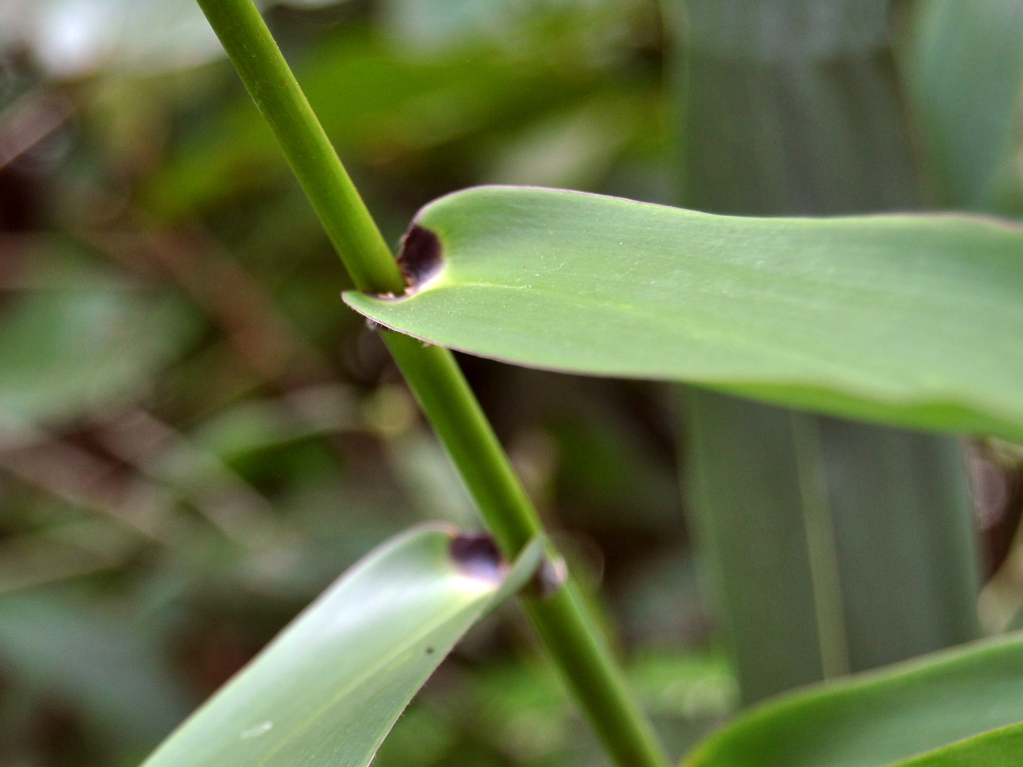 Thysanolaena latifolia, base of blades. From Simalungun, North Sumatra, Indonesia.